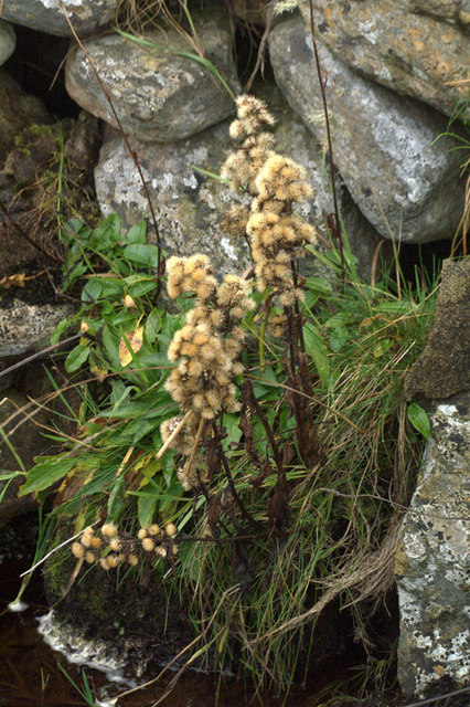 Goldenrod (Solidago virgaurea), Skaw The plant is quite local in Shetland, partly because it can only grow where it is safe from sheep; here it is in seed.